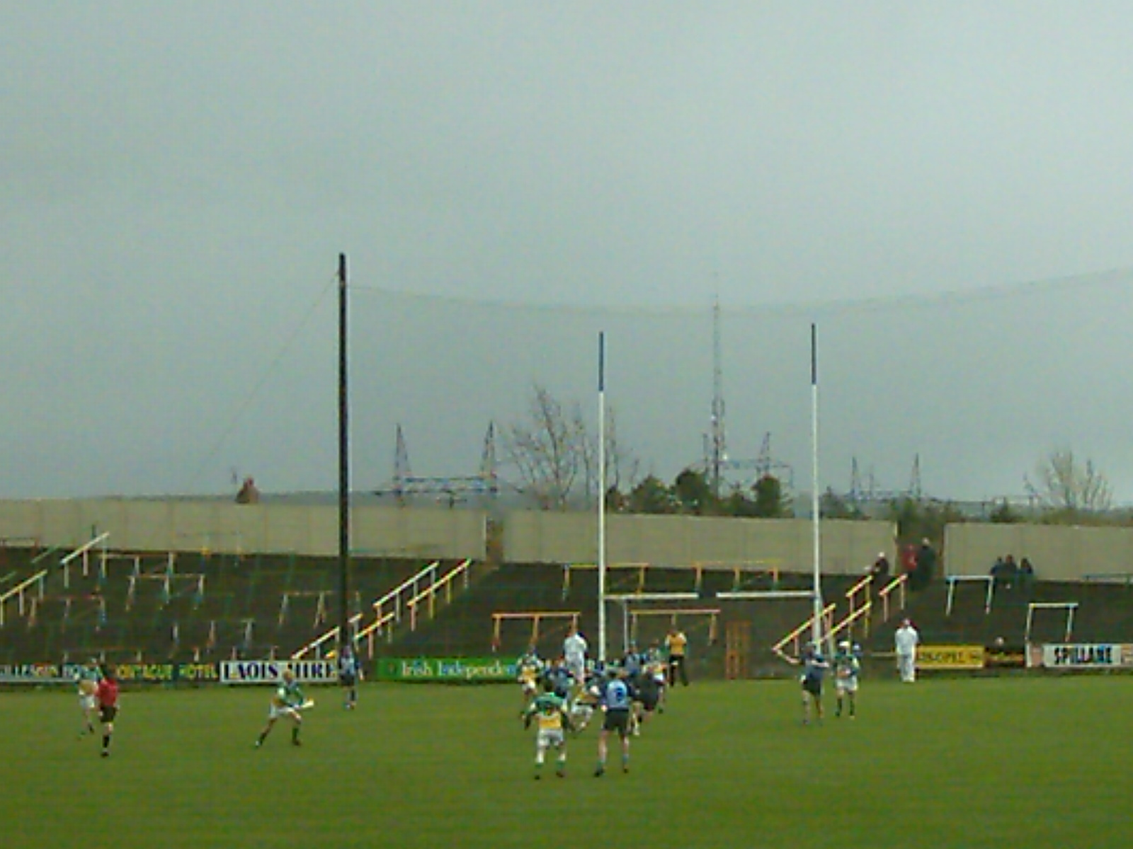 Dublin v Offaly (2004 Hurling League)